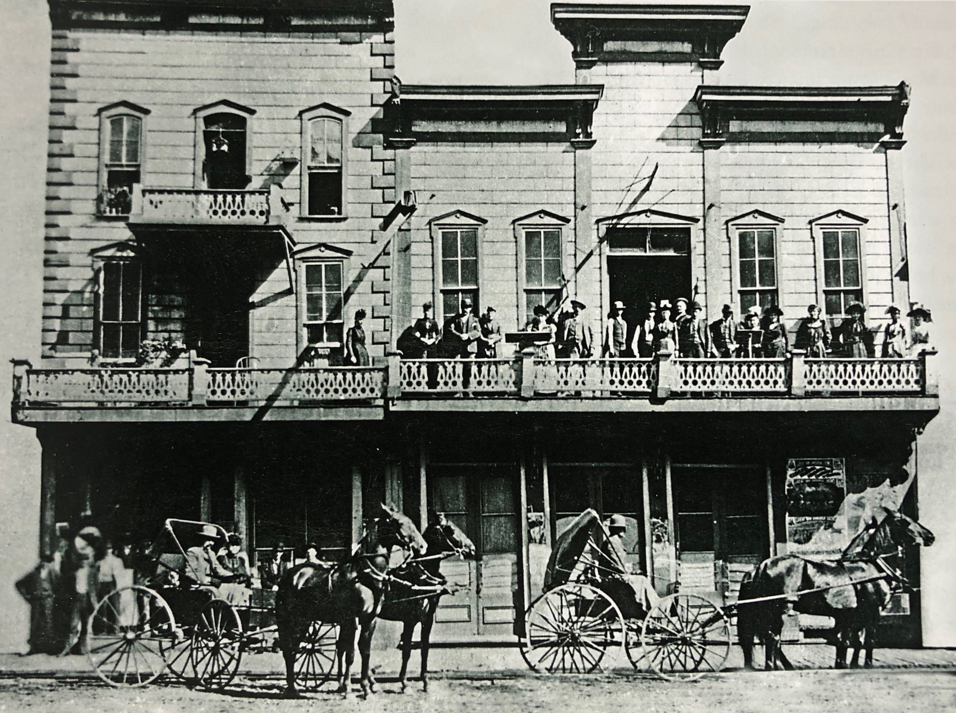 Gem Theater